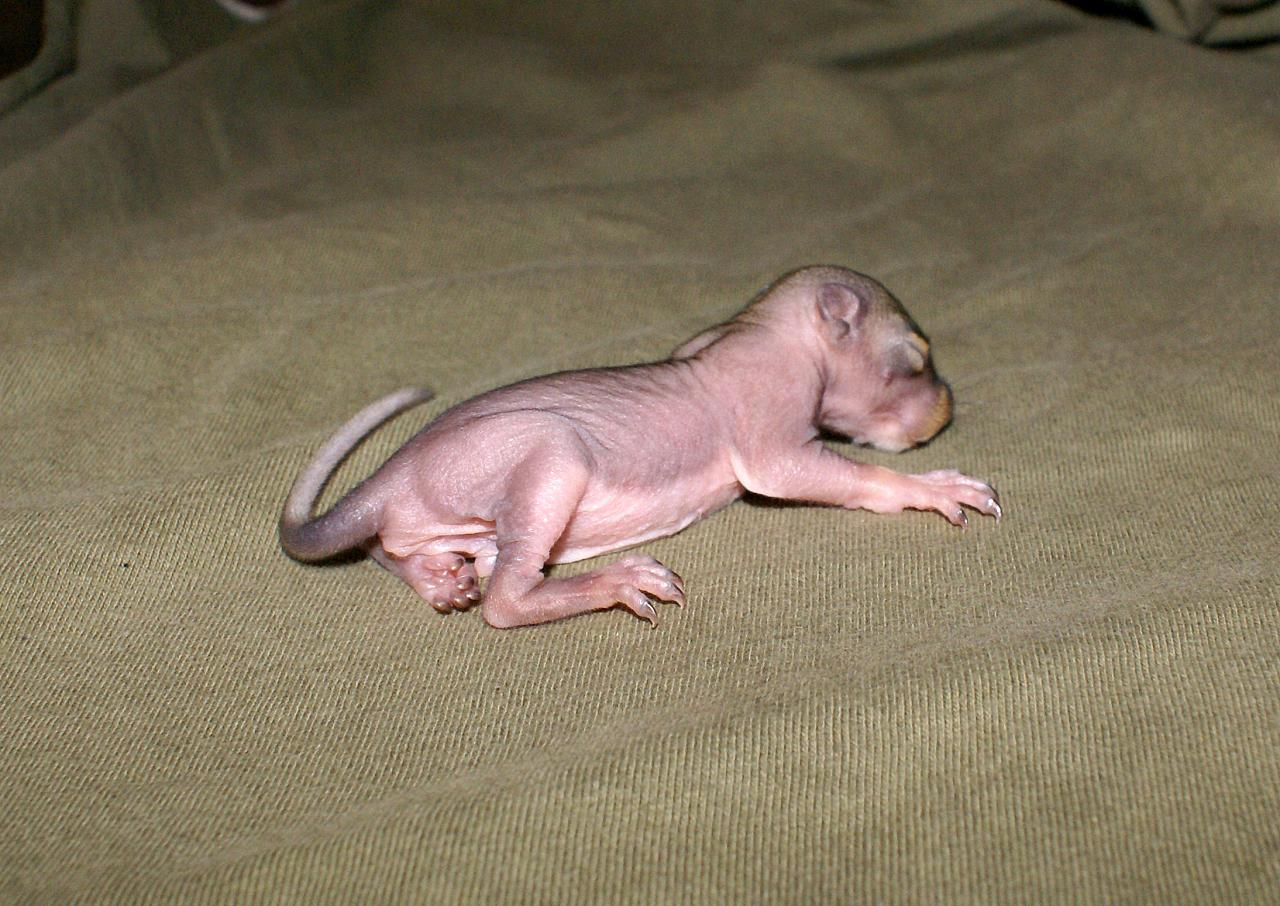 Eastern gray squirrels are born naked with their eyes closed.